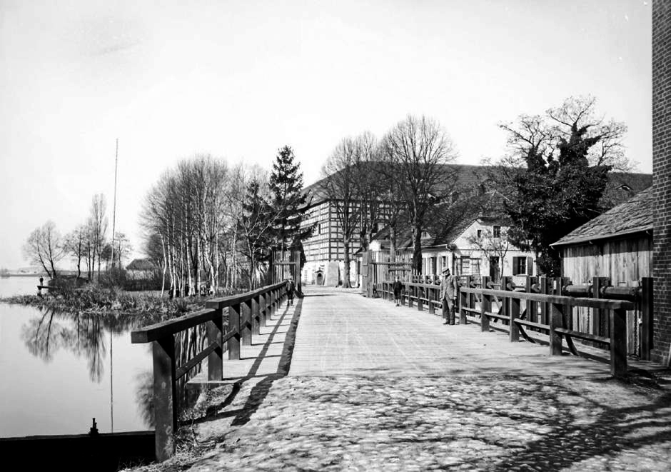 Island in the Brandenburger Havel, called Magazininsel before the magazin on the island was burned down by a lightning in 1891.